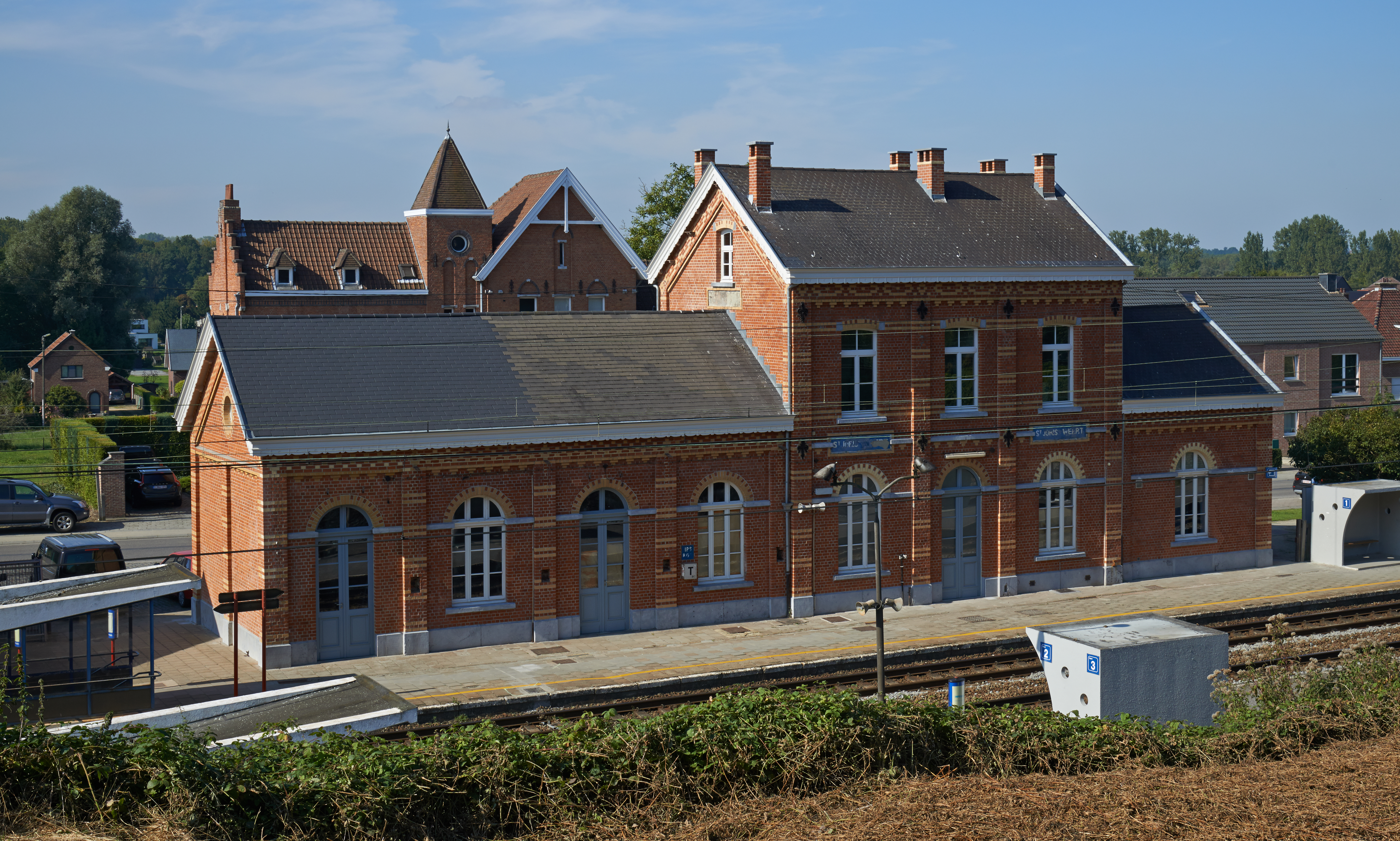 Train station in Sint-Joris-Weert (Oud-Heverlee), Belgium